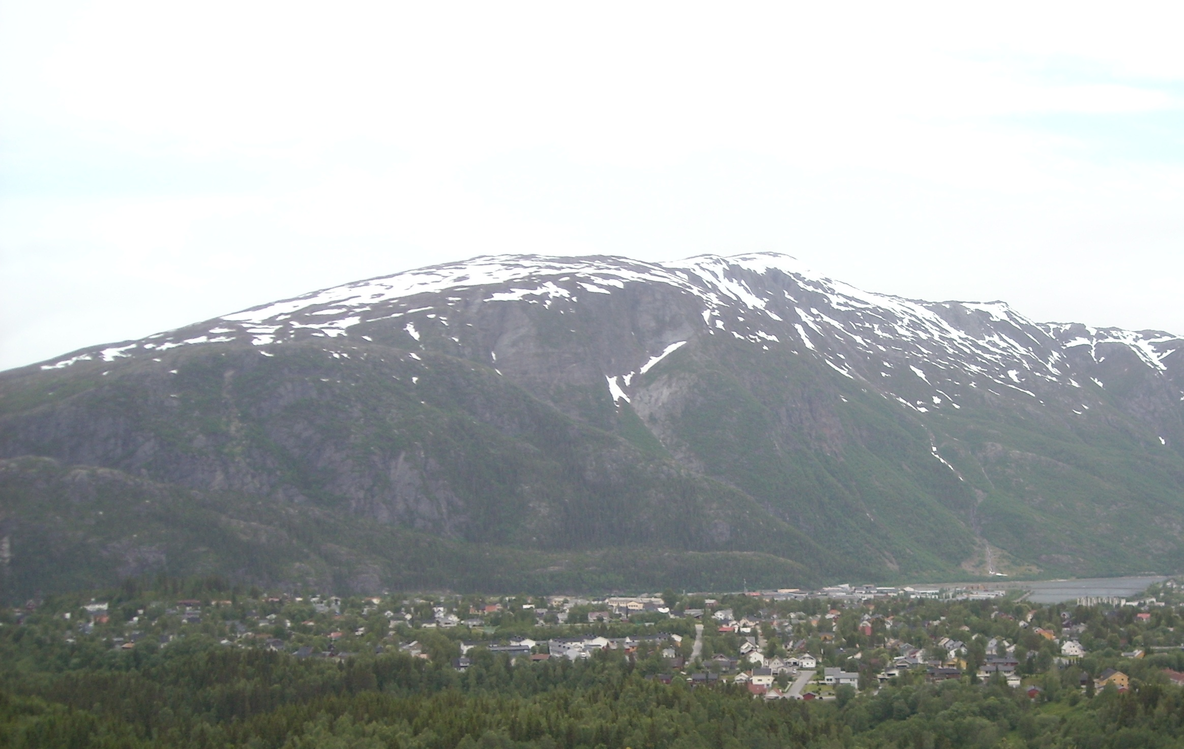 Olderskog, Mosjøen, Norway.